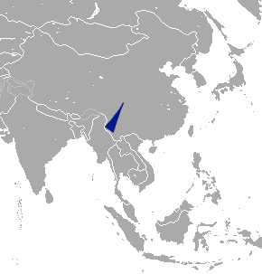 Greater Chinese Mole (Euroscaptor grandis) range